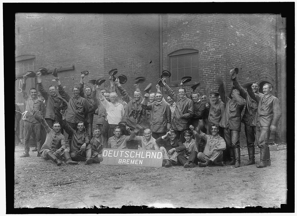 DEUTSCHLAND. BREMEN. GERMAN SUBMARINE. THE CREW Crew and officers of German submarine Deutschland Baltimore